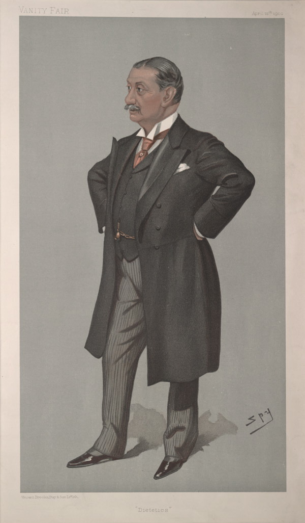 Men of the Day No. 778: Caricature of Dr Nathaniel Edward Yorke-Davies. Caption read "Dietetics".